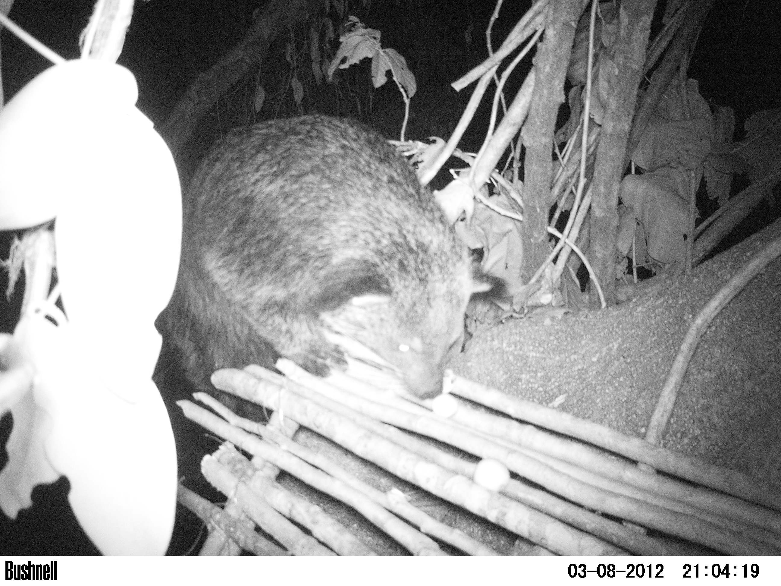 Binturong (Arctictis binturong) camera trapped at a feeding platform on a fruiting Ficus at Pakke tiger reserve